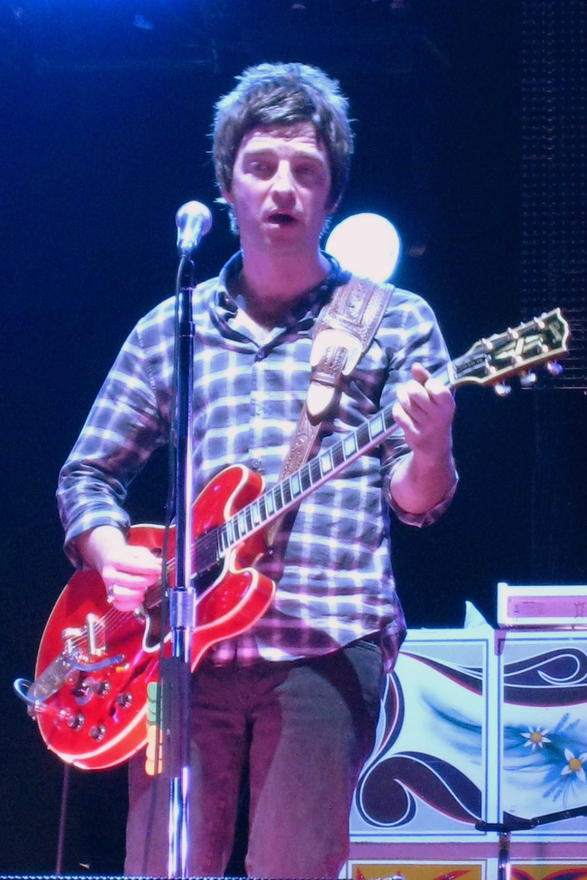 Taken at the Oasis Concert @ Bell Centre, Montreal, Canada on 5th September, 2008. Oasis is an mutli award winning rock band hailing from Manchester, England. Composed of Liam Gallagher (Vocals), Noel Gallagher (Vocals & Guitar), Gem Archer (Guitar), Andy Bell (Guitar) & Chris Sharrock (Drums), they have sold over 50 million records. The concert was opened by Ryan Adams and the Cardinals. Funny that I found Ryan standing beside me on the floors during the break. News: At the Virgin Mobile Festival 2008 in Toronto, Noel was attacked on stage while playing 'Morning Glory' and thrown over his monitor speakers. Sad! Anyway, the 'fan' receive generous punches by his fellow earthlings while being escorted out of the stadium.